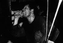 Pete Stahl playing live with SCREAM